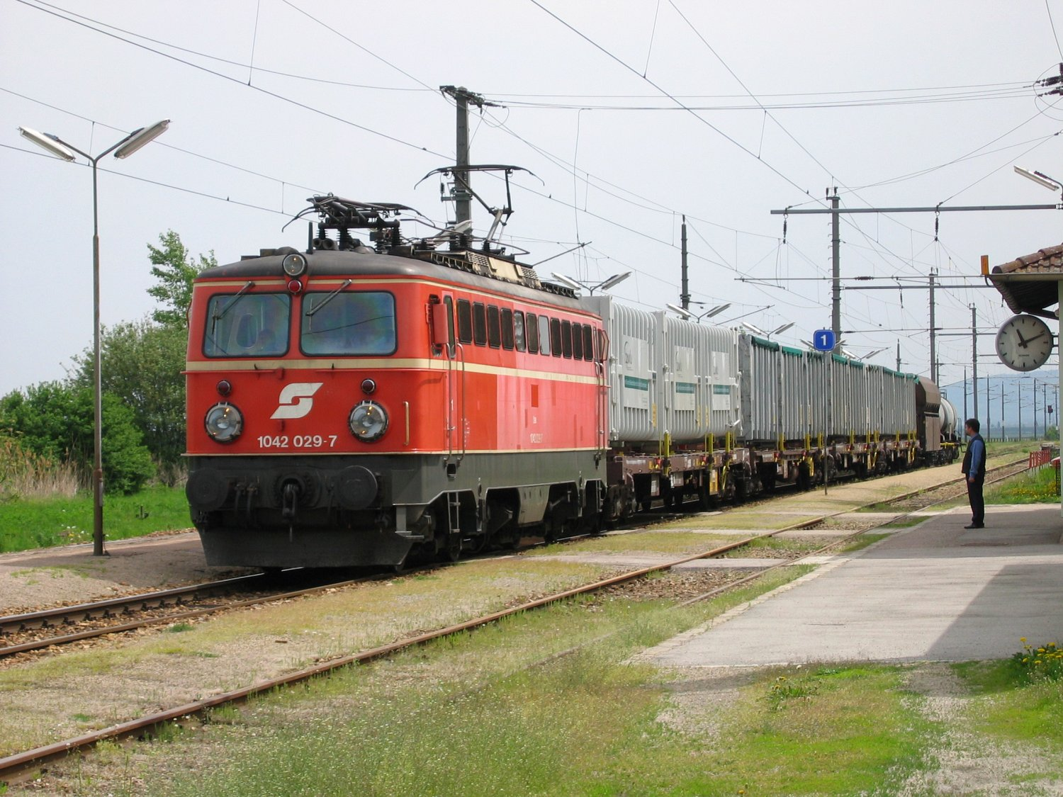 ÖBB 1042 029-7 passing Michelhausen station in Lower Austria with a goods train.